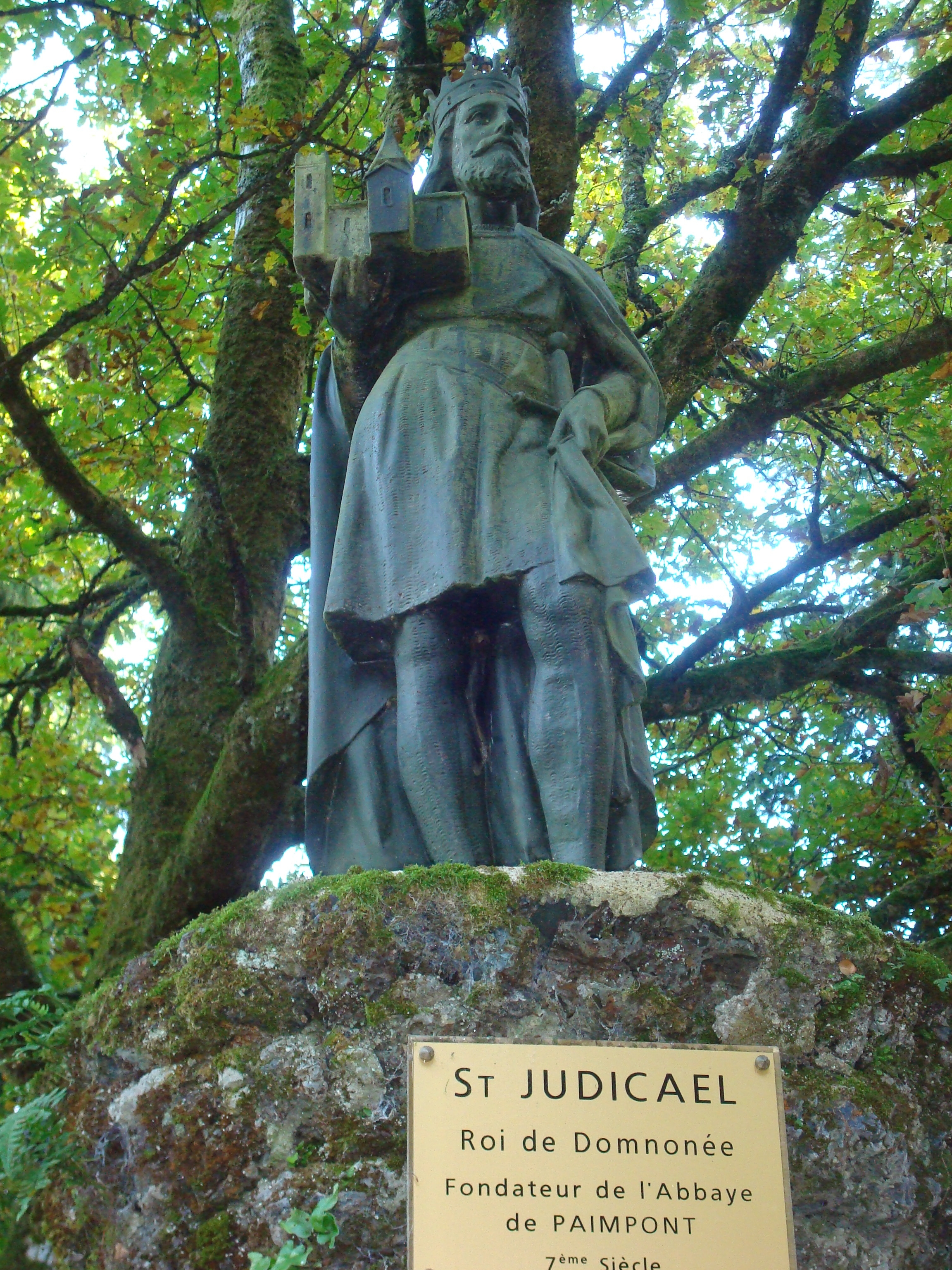 Delwenn da Yezekael Domnonea